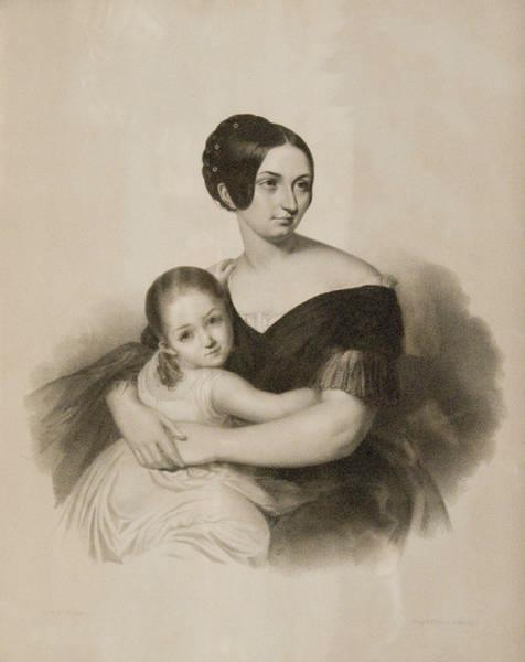 Princess Carolyne Sayn-Wittgenstein with her daughter Princess Mary, about 1840